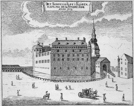 Københavns Slot in Copenhagen, Denmark